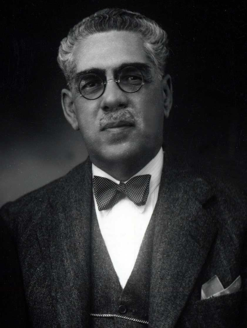 José Franchy y Roca, Spanish politician (from Las Palmas de Gran Canaria, Canary Islands; Spain). * 1871 † 1944